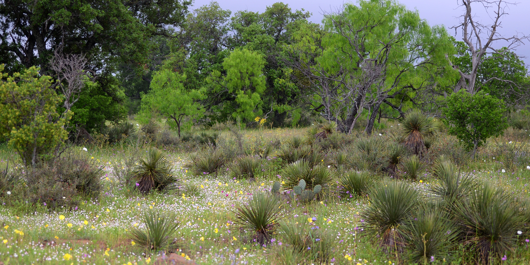 Ranchland in the Edwards Plateau Mason County, Texas, USA. Photographed on 17 April 2015 by William L. Farr